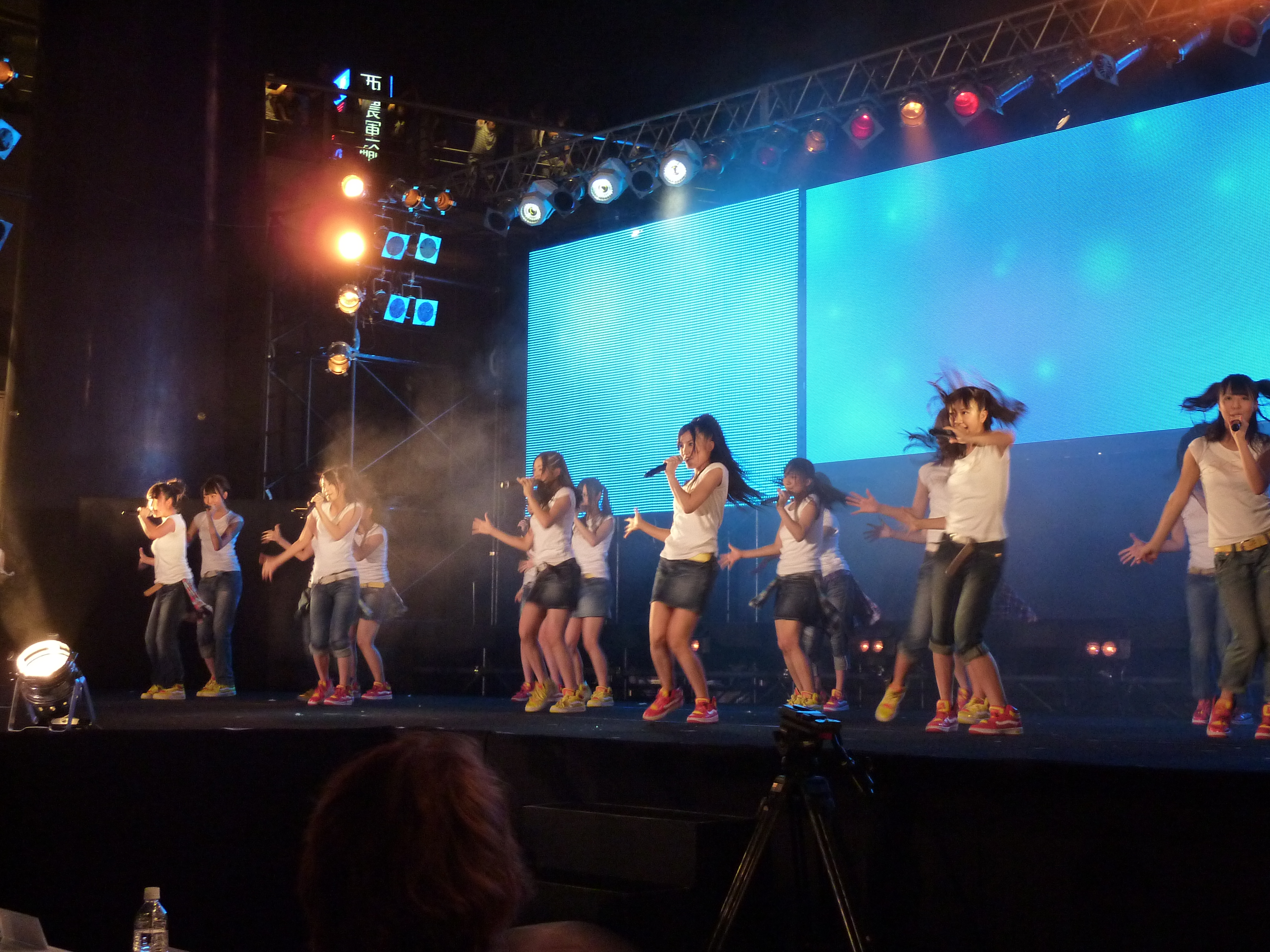 Japanese idol group SKE48 Team KII performing at the World Cosplay Summit 2010